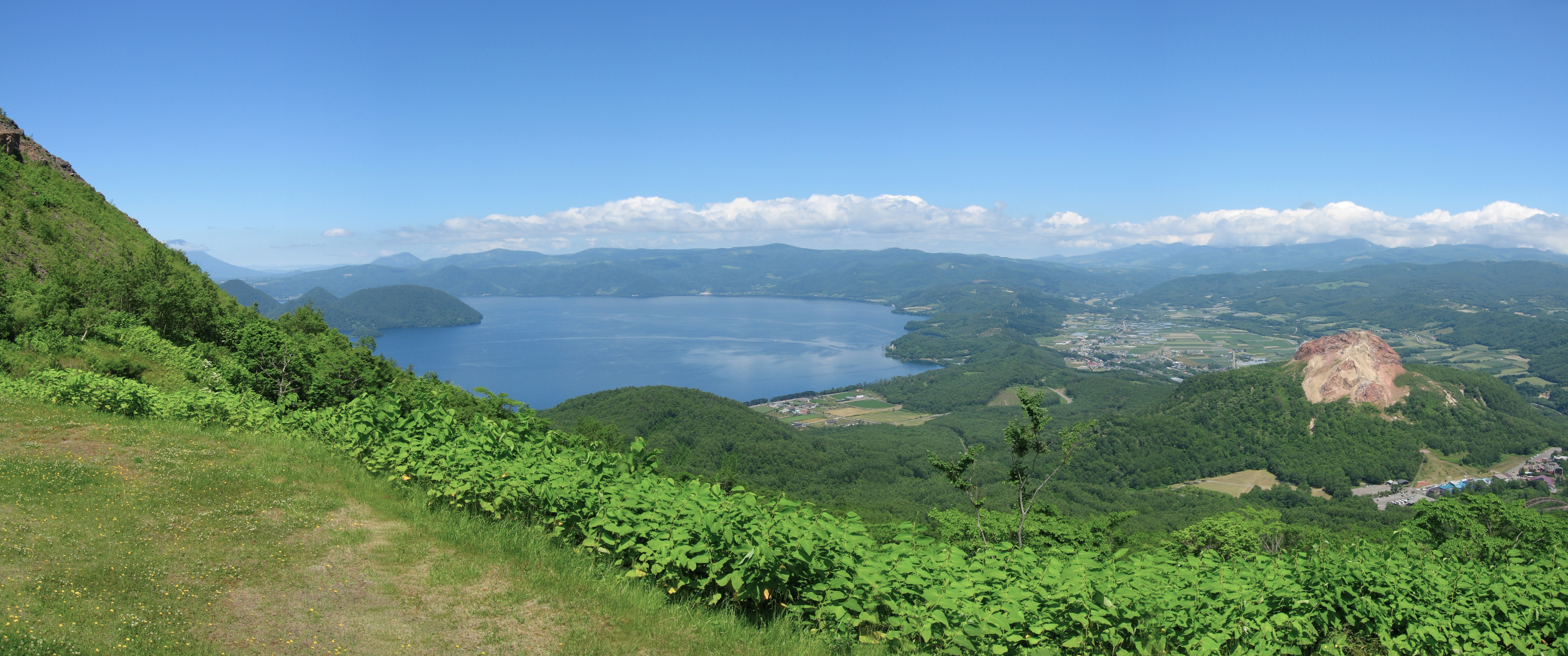 Photo of Lake Toya (left) and Showa Shinzan (right) taken from Mount Uzu